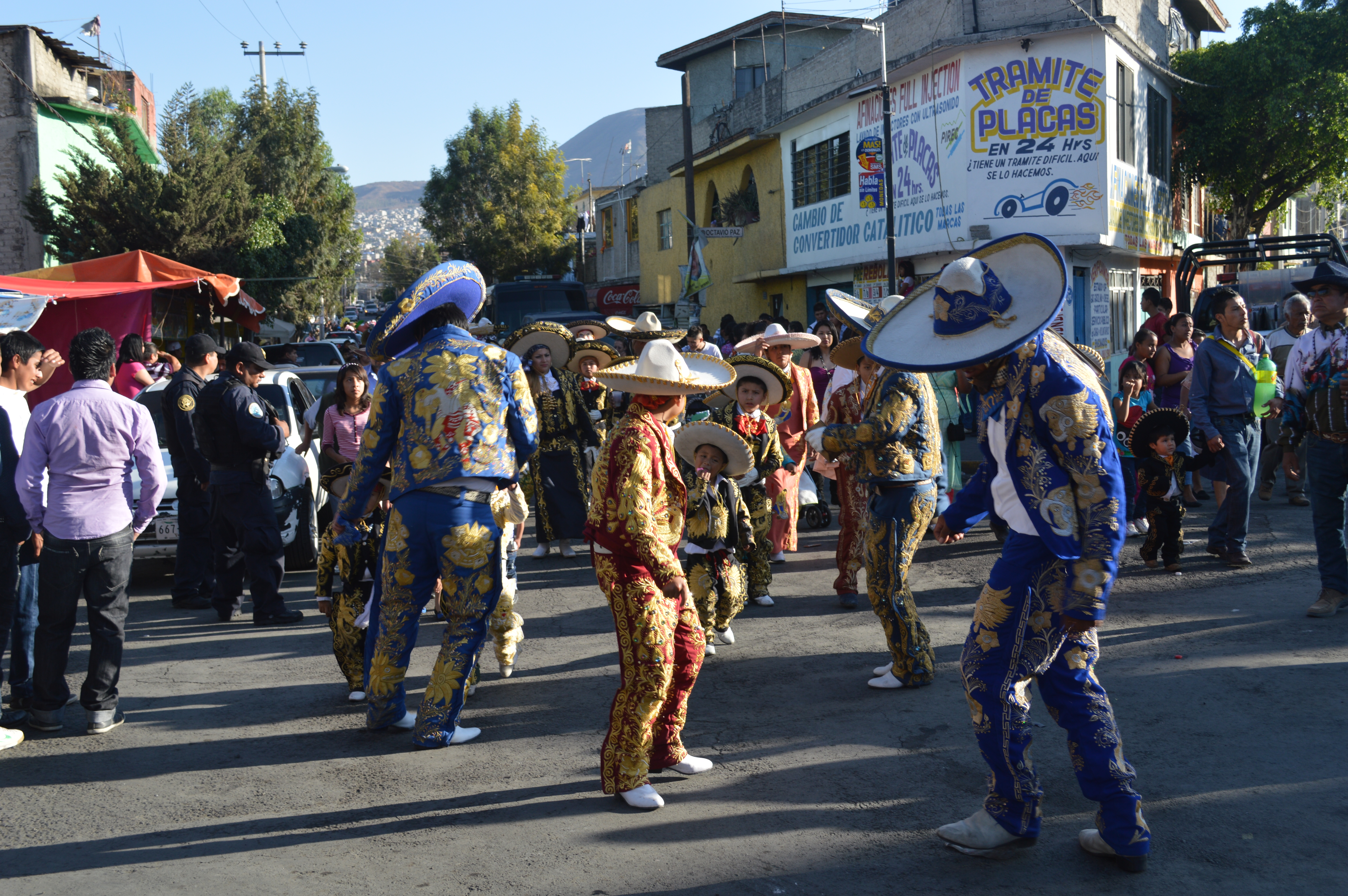 Participants at the Carnival de Santa Marta Acatitla, Iztapalapa, Mexico City